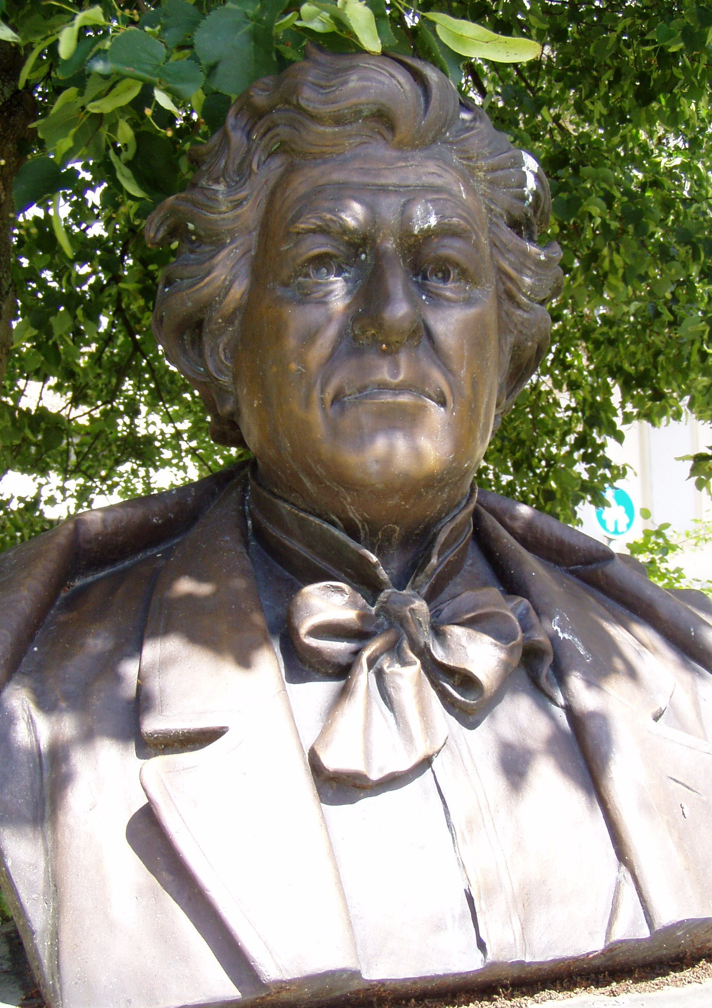 Statue of Cyrill Kistler (1848-1907), composer